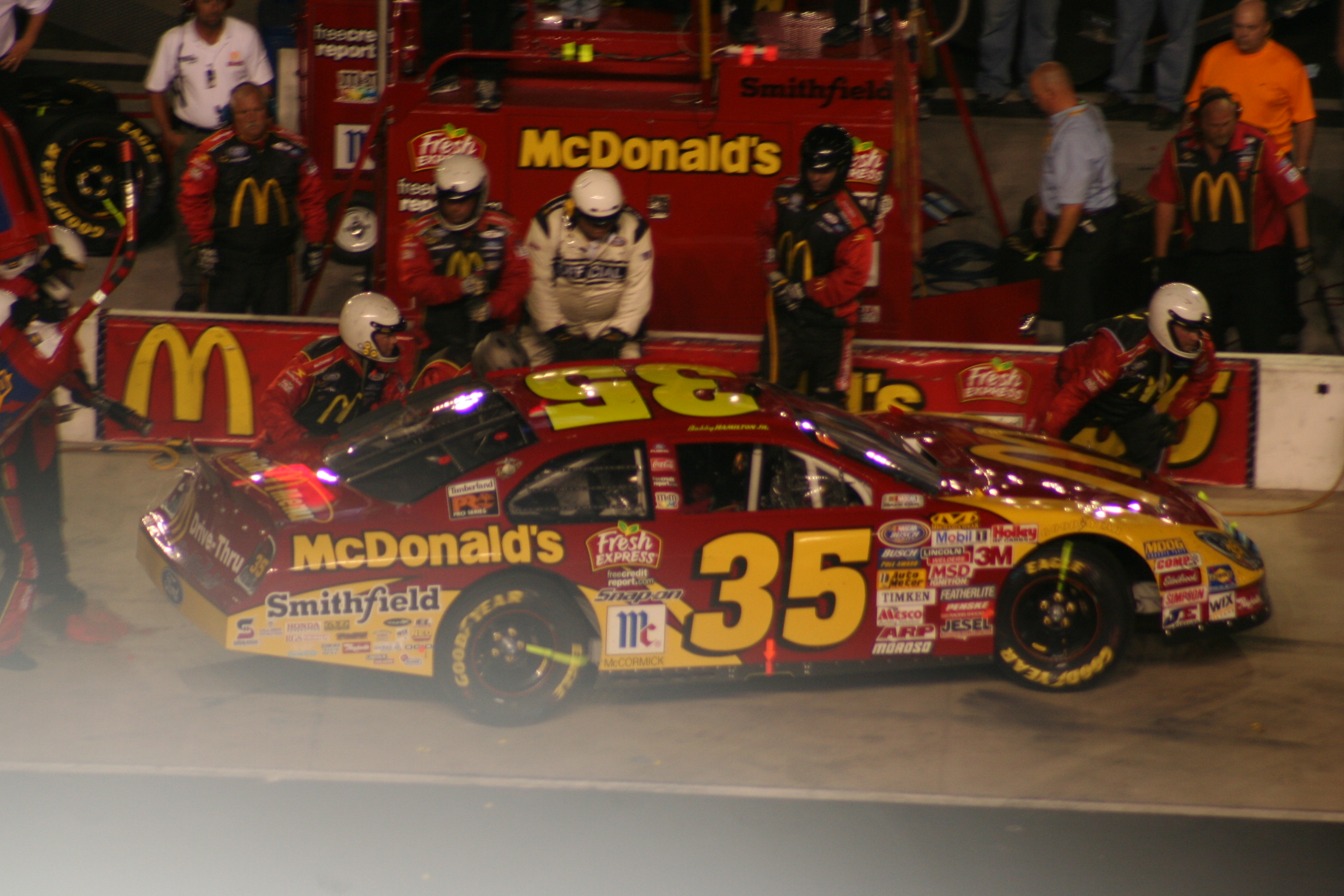 The racecar of NASCAR Busch Series driver Bobby Hamilton, Jr. at Bristol Motor Speedway in August 2007